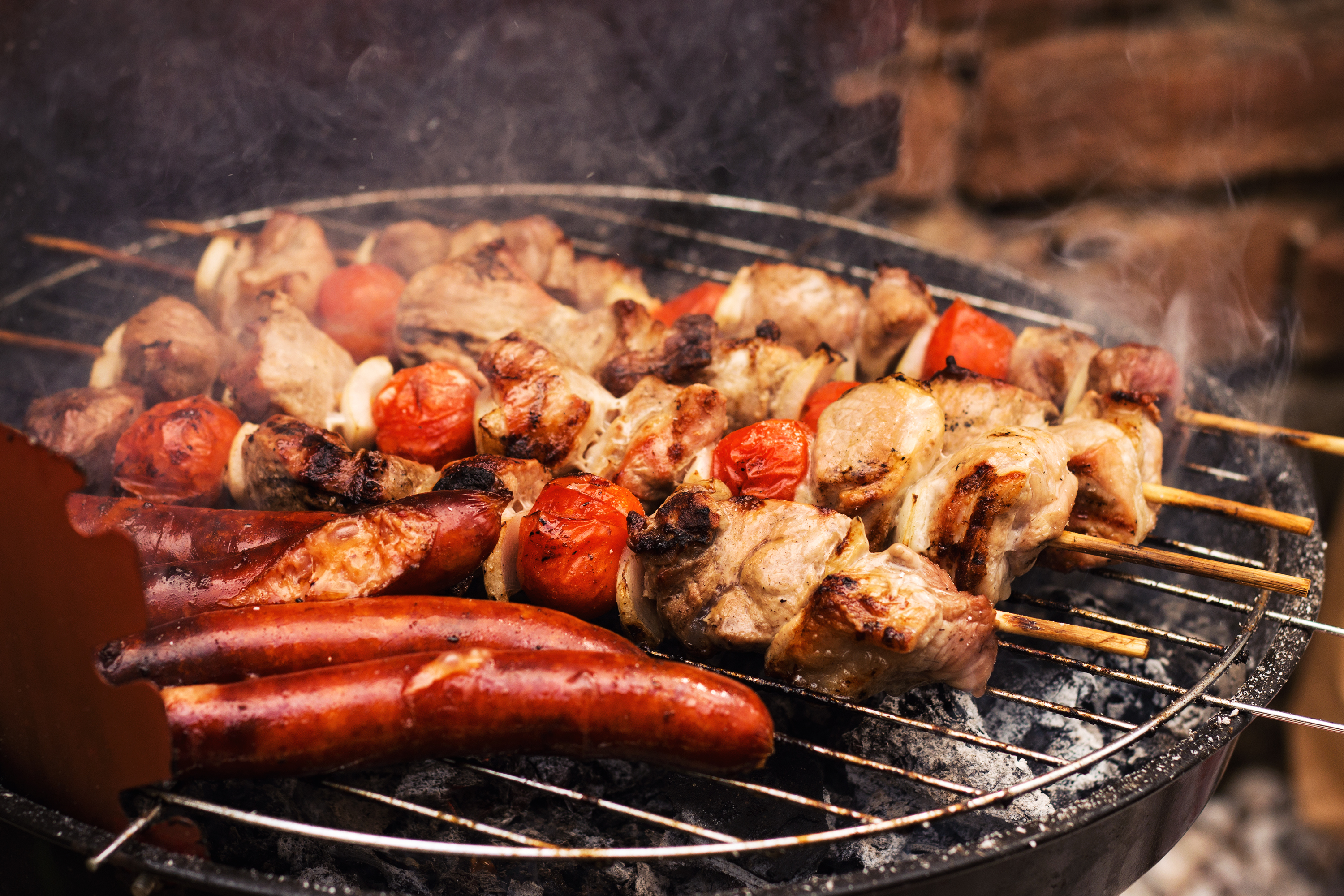 Macedonian style grilled sausages and pork skewers